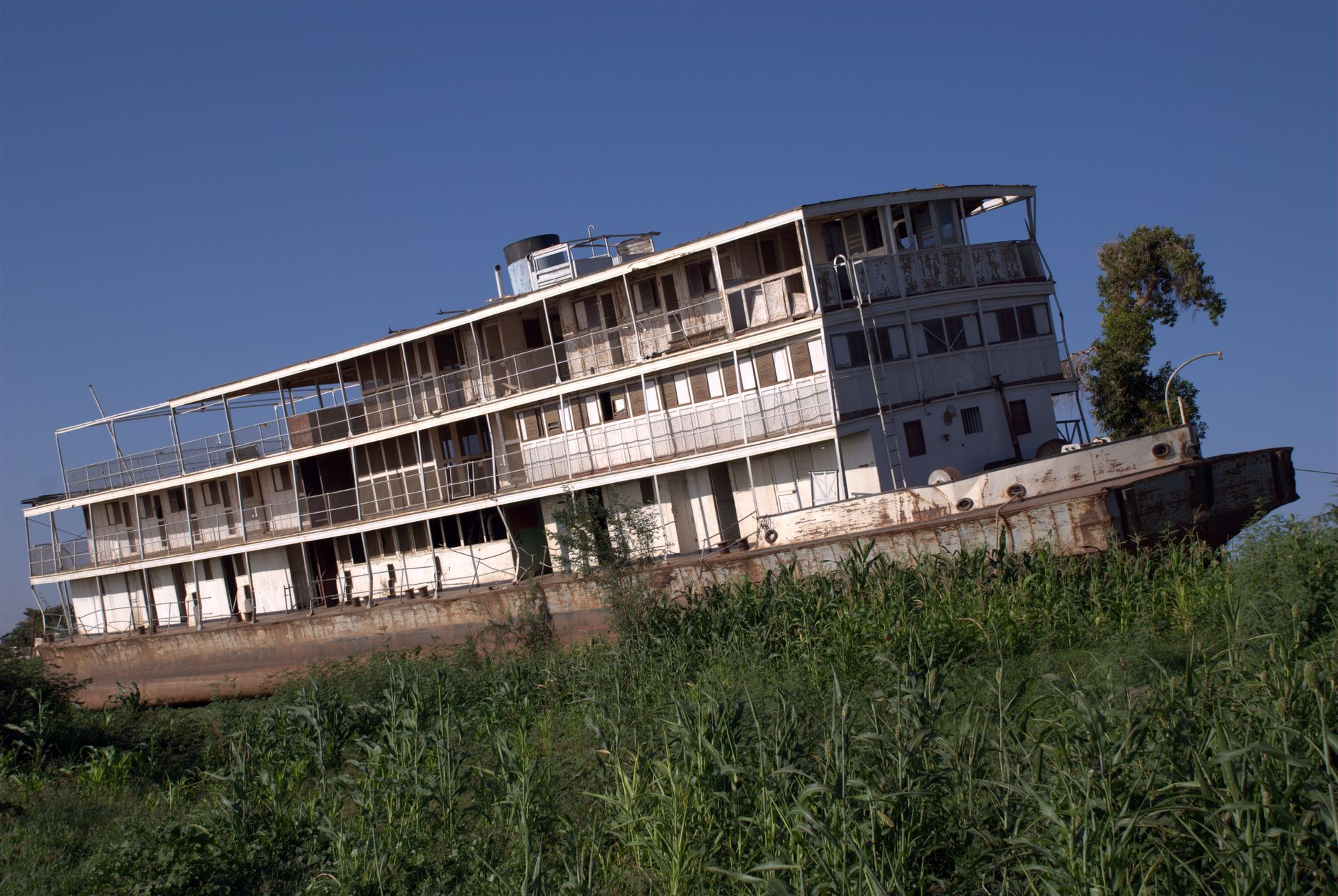 Karima, Sudan. No more passenger ships on the nile